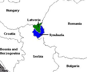 Map to Symkaria, shown in blue